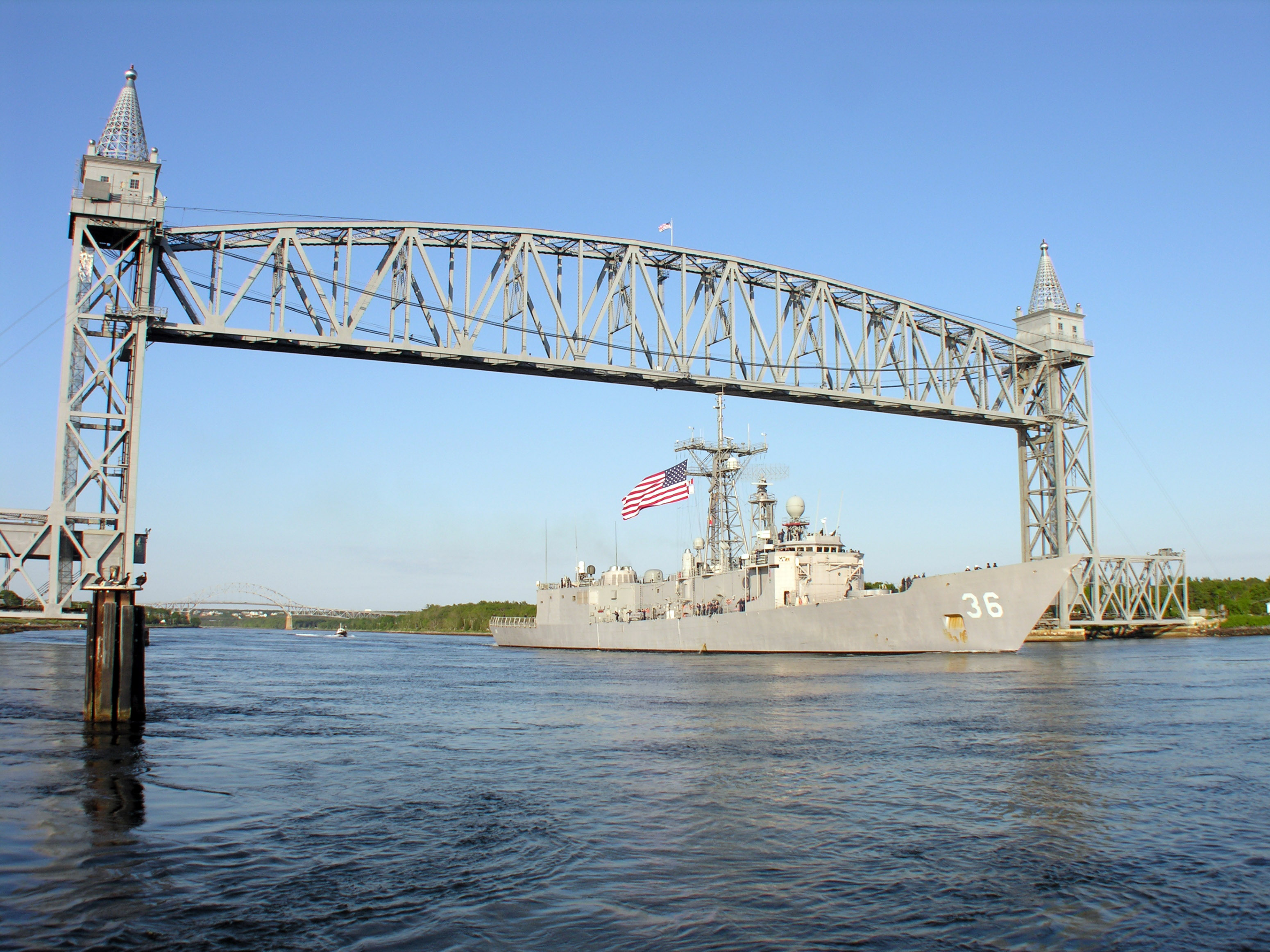 Cape Cod, Mass. (June 13, 2006) - The guided-missile frigate USS Underwood (FFG-36) passes beneath the Buzzards Bay Railroad Bridge after transiting west through the Cape Cod Canal. The canal is a man-made ship channel operated and maintained by the U.S. Army Corp of Engineers. Underwood is the first U.S. Navy ship to transit the canal in over six years. Underwood is returning home to Mayport, Florida, following a visit to Boston for the city's Navy Week festivities.